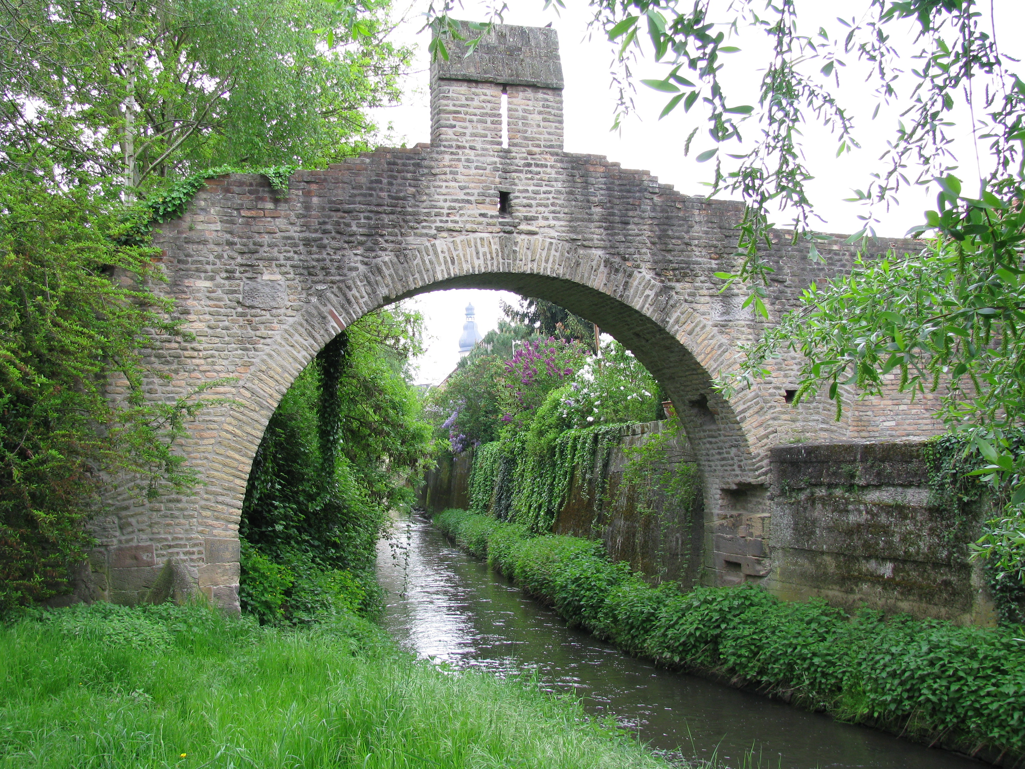 Speyer: City wall where it crosses the Speyerbach near Eselsdamm. It was possible to close the arch with a gate, which is why it is calles "Riegel" (bolt). Through the arch the tower of St. George's church(Dreifaltigkeitskirche) is visible in the background.